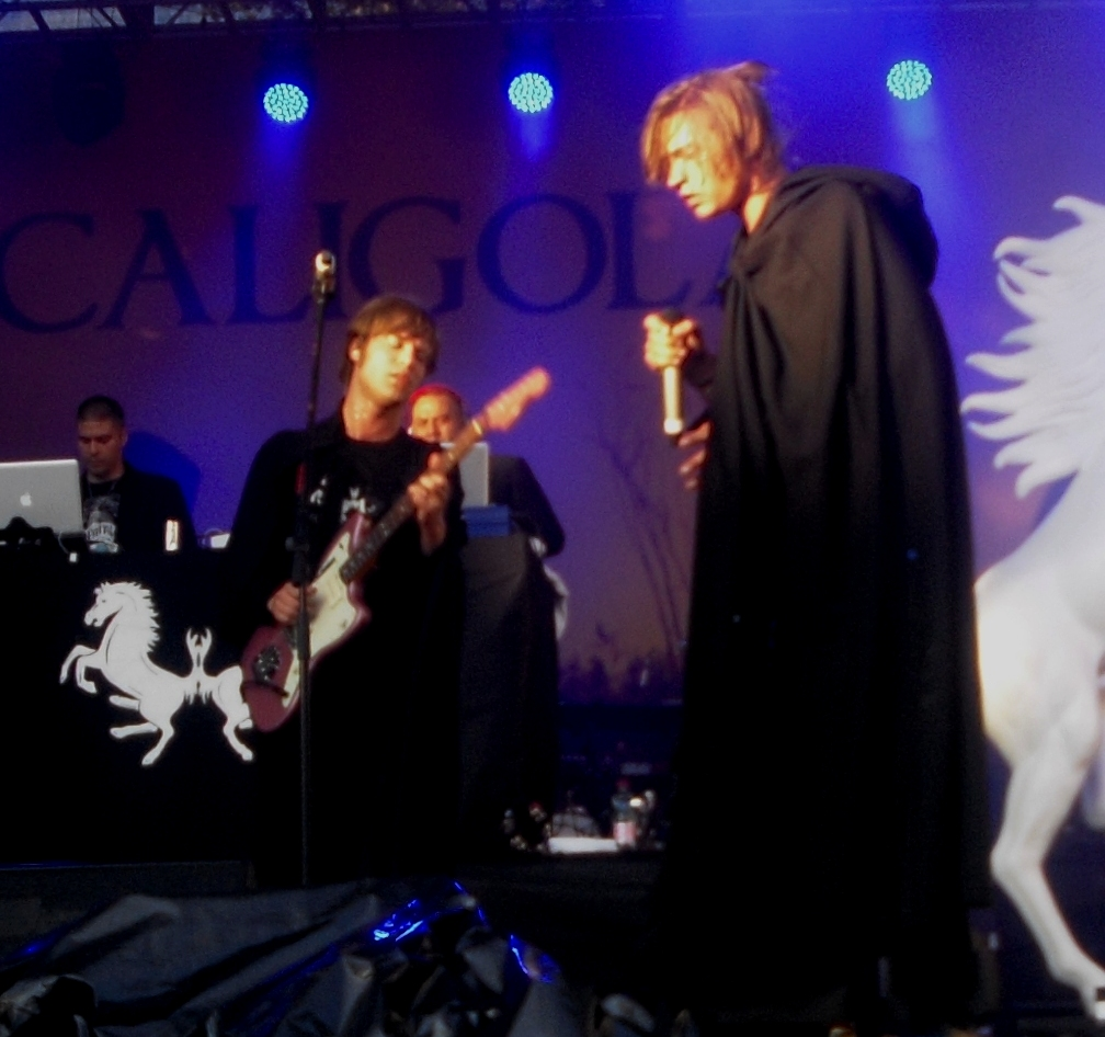 live performance of Caligola in July 2012; Björn Dixgård, Gustaf Norén, Masse and Salla Salazar